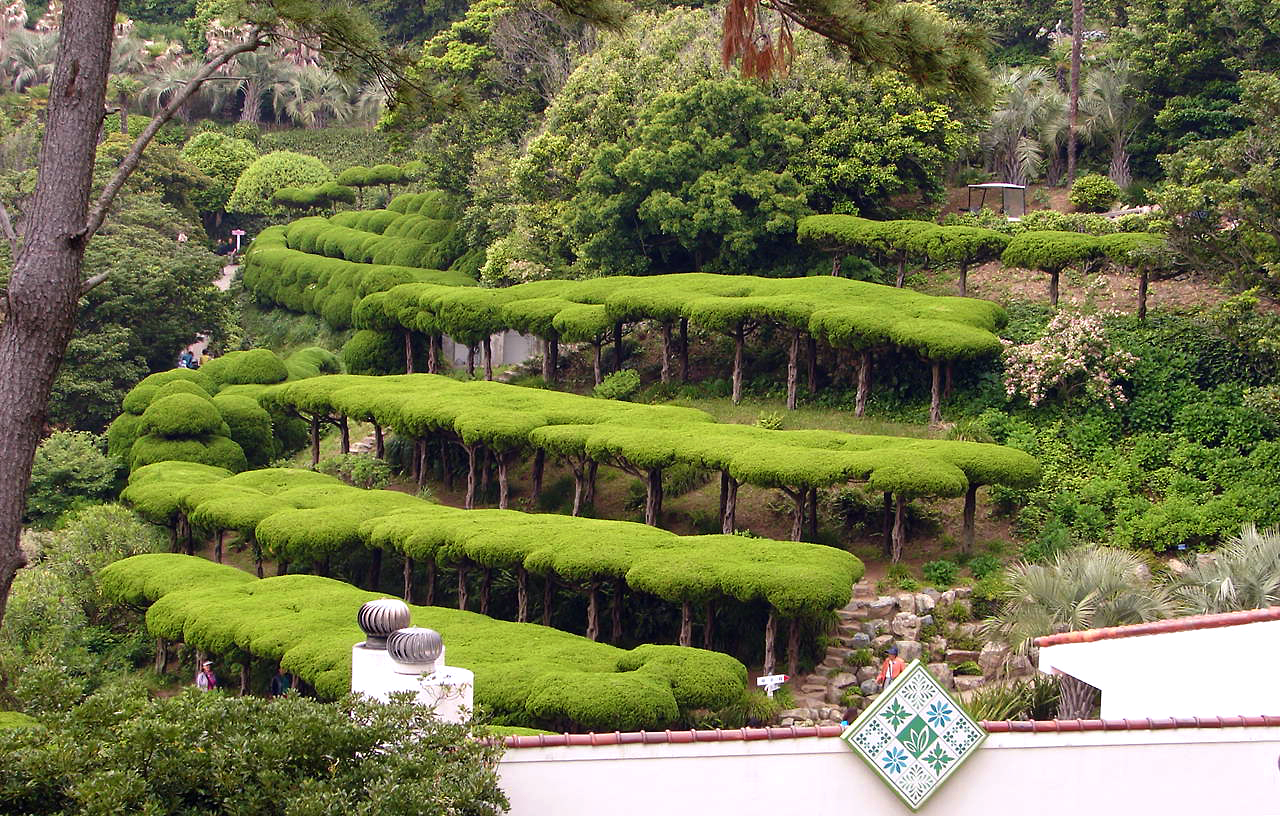 Oedo is a western-style island botanical garden built 1969 by Lee Chang-ho and his wife, in Hallyeo Haesang National Park (national marine park), in what is part of Geoje city, Gyeongsangnam-do, South Korea. The island is home to more than 3,000 plant species, many quite rare, like Agave Americana, Rose of Sunshine, Windmill Palms, C.peruvianus (a kind of cactus), and includes many other subtropical plants, like cactus, palm trees, gazania, eucalyptus, bottlebrush bush, New Zealand flax, and agave. Oedo has a coastal climate with mild subtropical weather.